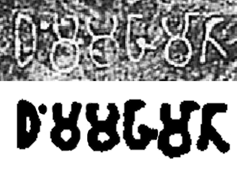 Dhamma Mahaamaataa